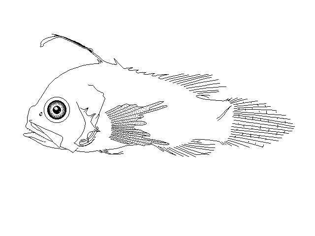 Grammistes sexlineatus Larva